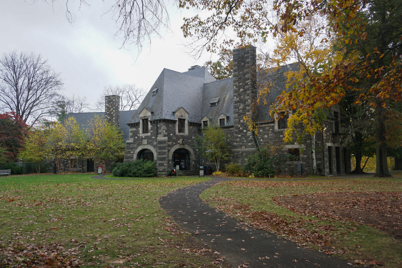 One of 11 uploads of different parts of Storm King Art Center, entirely in my ownership as not focusing on the copyrighted works of art.